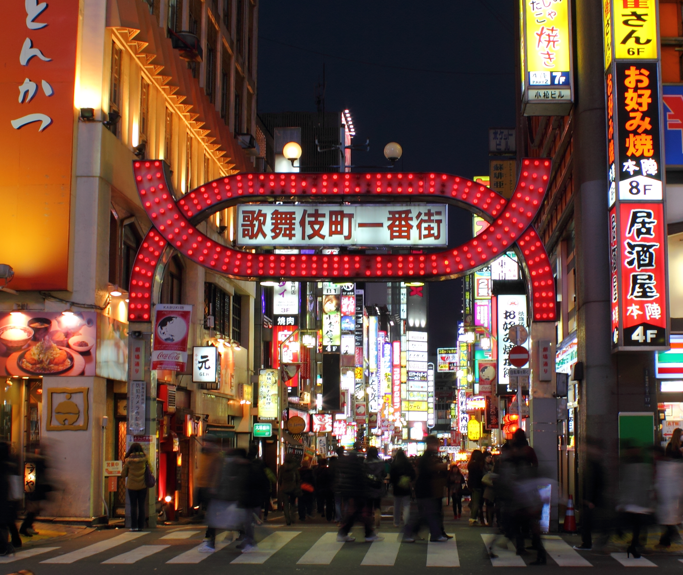 A street at night, in the Kabukichō district of Shinjuku, Tokyo.